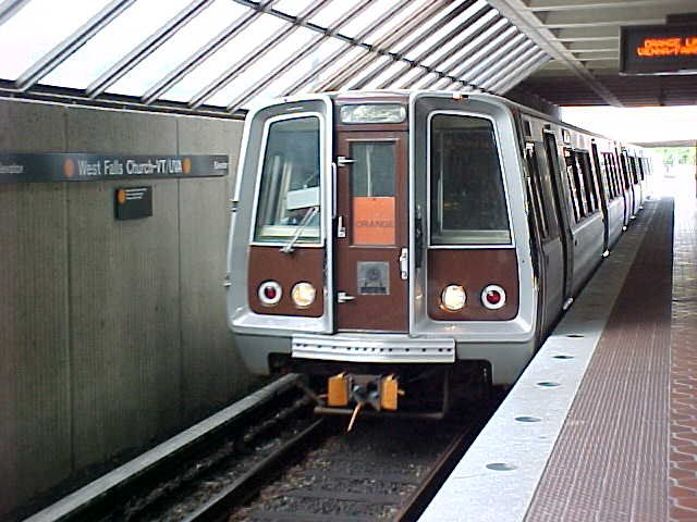 West Falls Church-VT/UVA station